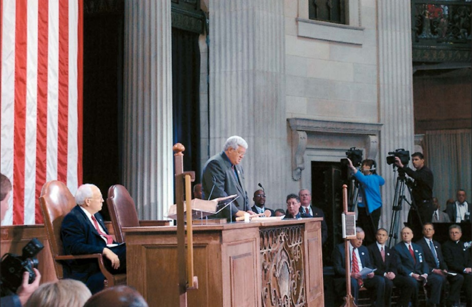 A special session of Congress on September 6, 2002. Then-Vice President Dick Cheney is seated on the left and Then-Speaker of the House Dennis Hastert is seated on the right.